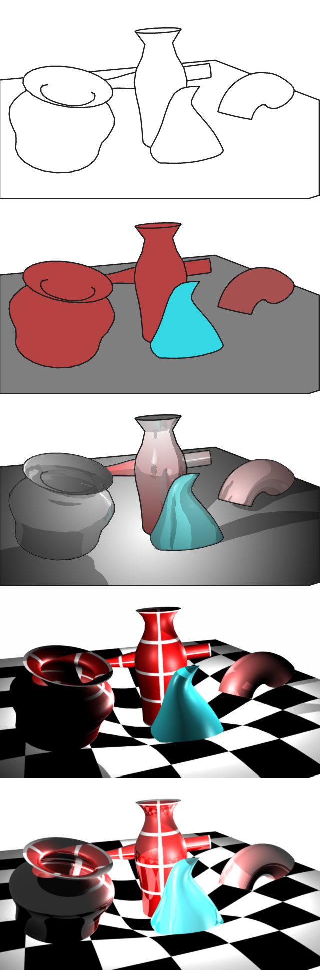 A computer generated 3D scene, rendered flat to 2D with different rendering algorithms. From a very simple picture consisting only of black outlines to a sophisticated image with shadows and releflections. The top image took about 1 second to render on a standard 2005 PC. The bottom image took about 3 minutes to render at that time.